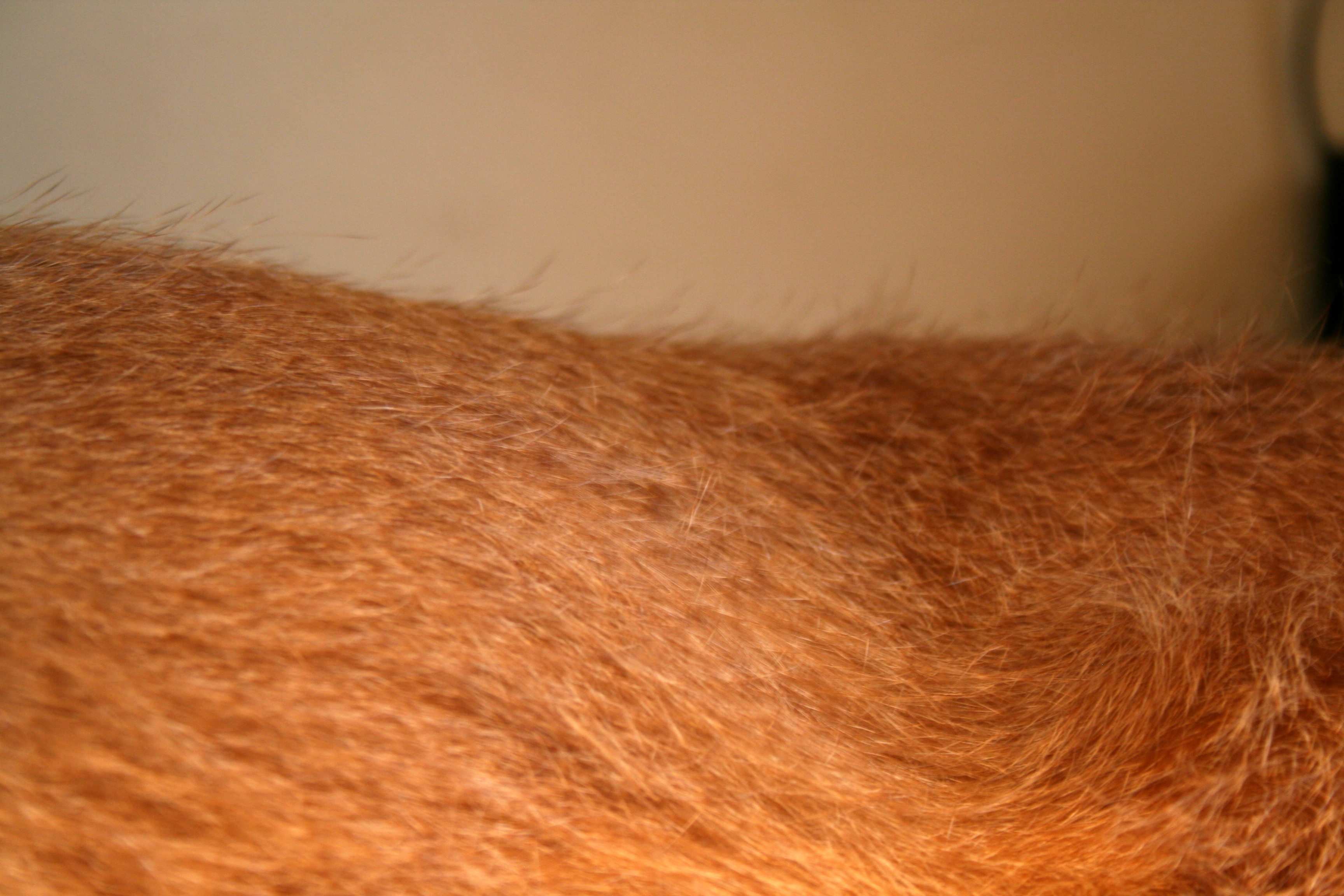 A Wirehaired Vizsla Coat